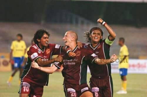 Noel in Bagan